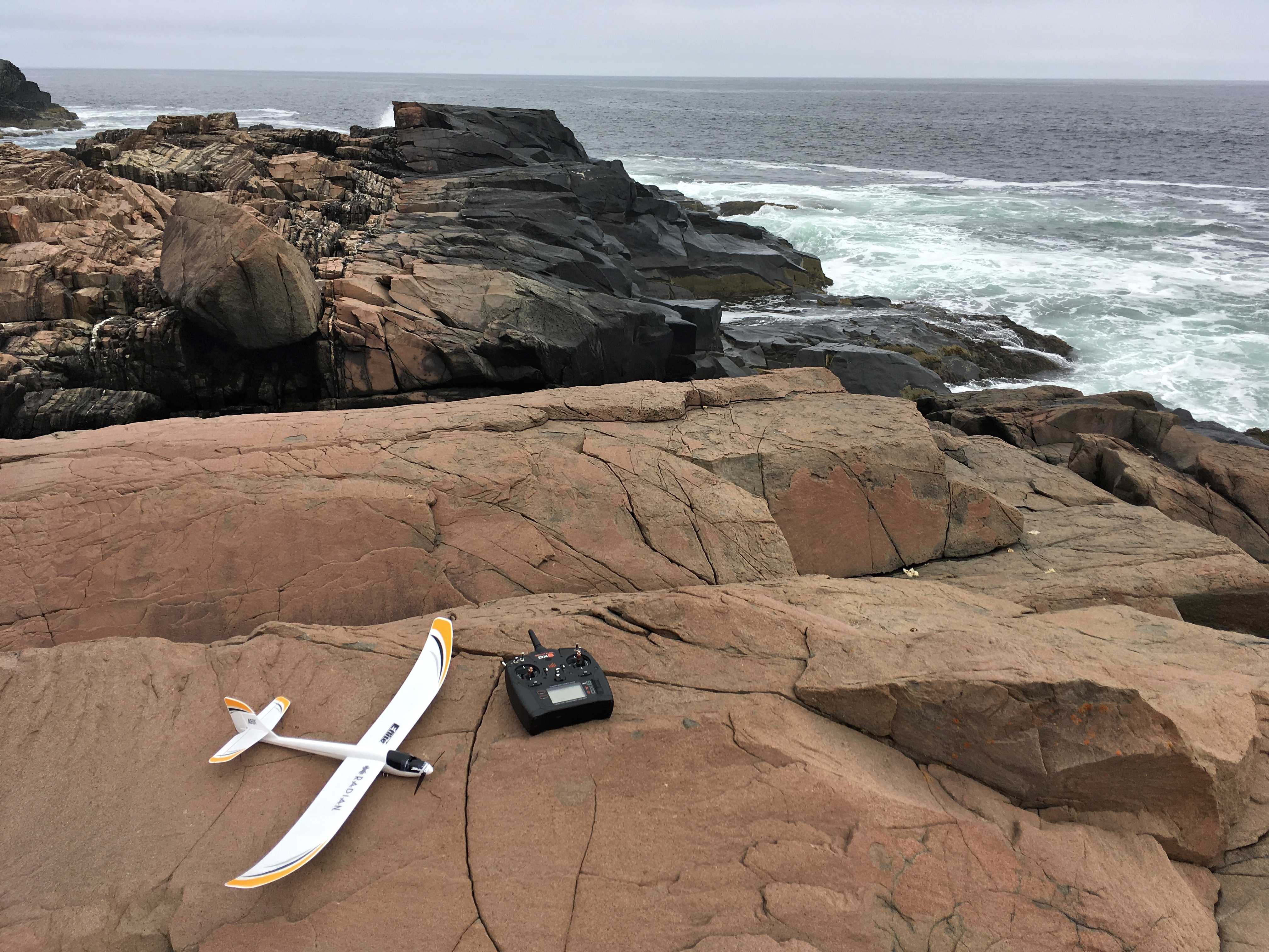 Flying an UMX Radian model glider on the main rock formation at Bald Head Cliff